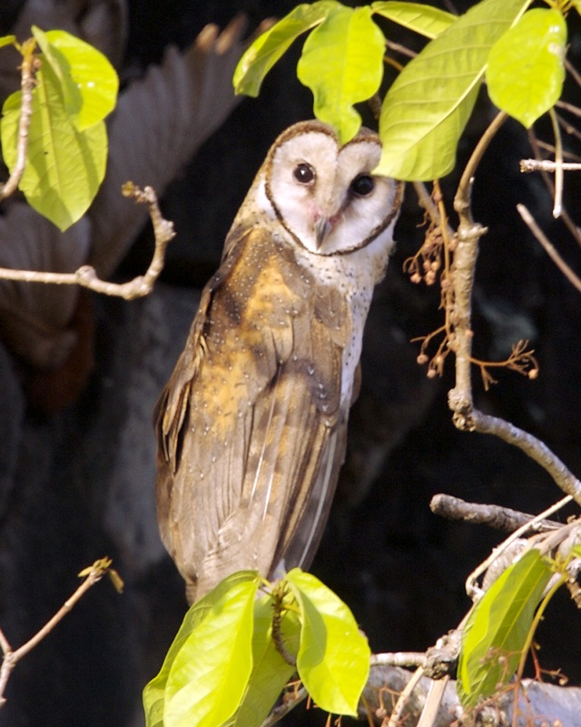 Sulawesi Owl Tyto rosenbergii rosenbergii Location: Tangkoko Nature Reserve, North Sulawesi, Indonesia 11th. July 2006